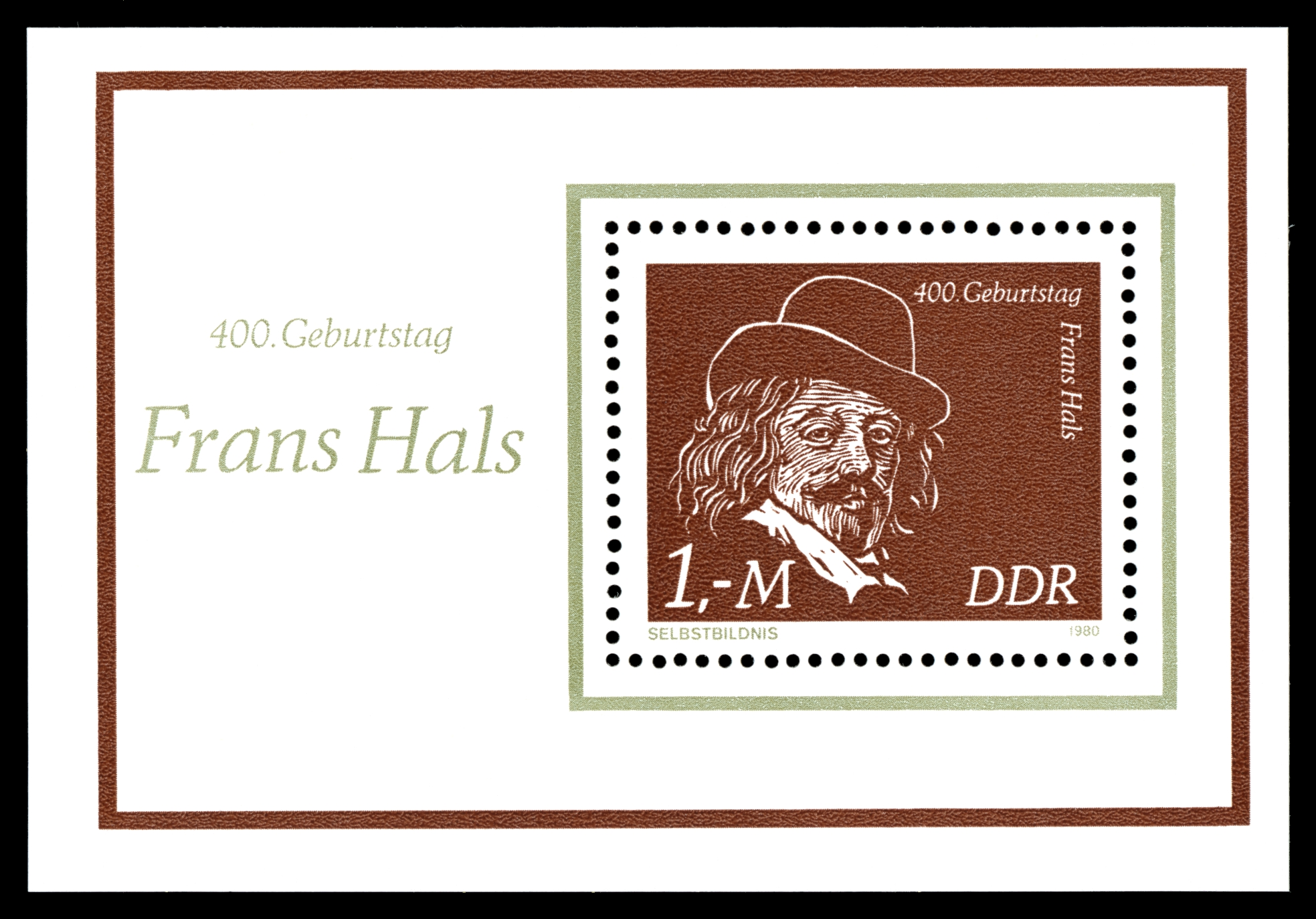 Ausgabepreis: 100 Pfennig First Day of Issue / Erstausgabetag: 23. September 1980 Auflage: 2.000.000 Entwurf: Naumann Druckverfahren: Rastertiefdruck Michel-Katalog-Nr: Ländercode-MiNr: Block 61 Licensing This file is most likely NOT in the public domain. It has been marked for review, and will be deleted in due course if the review does not find it to be in the public domain. This file was previously considered to be in the public domain as a German stamp; it is possible that it is in the public domain for other reasons, in which case a new rationale will be applied as part of the review process. See below for the previous rationale. Previous public domain rationale, no longer applicable This stamp is in the public domain in Germany because it was released by the postal administration of the German Democratic Republic or the Soviet occupation zone (Deutschen Post der DDR) whose legal successor is the Federal Republic of Germany. Thus it is an official work according to German copyright law (§ 5 Abs. 1 UrhG).